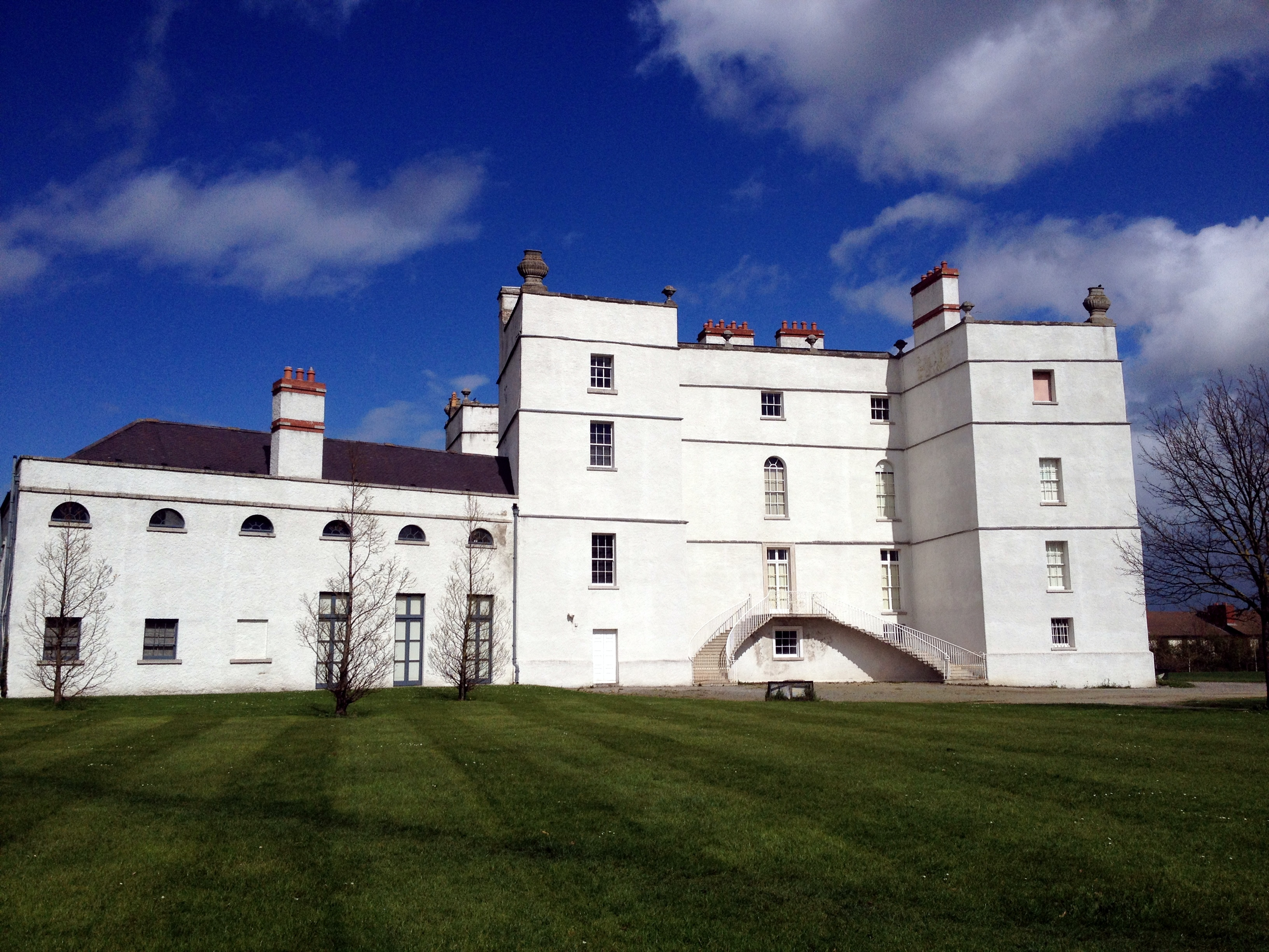 Rathfarnham Castle, Dublin